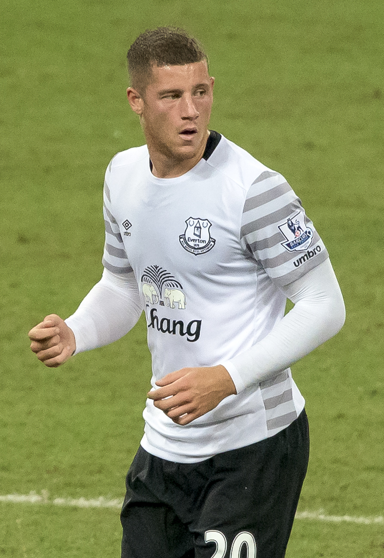 ross barkley 2015 everton arsenal barclays asia singapore